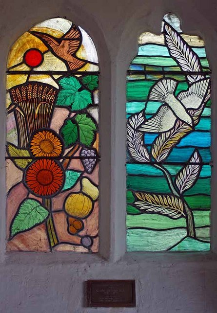 St Mary's Church, Tasburgh, Norfolk - Window Modern window by Paul Quail in church porch